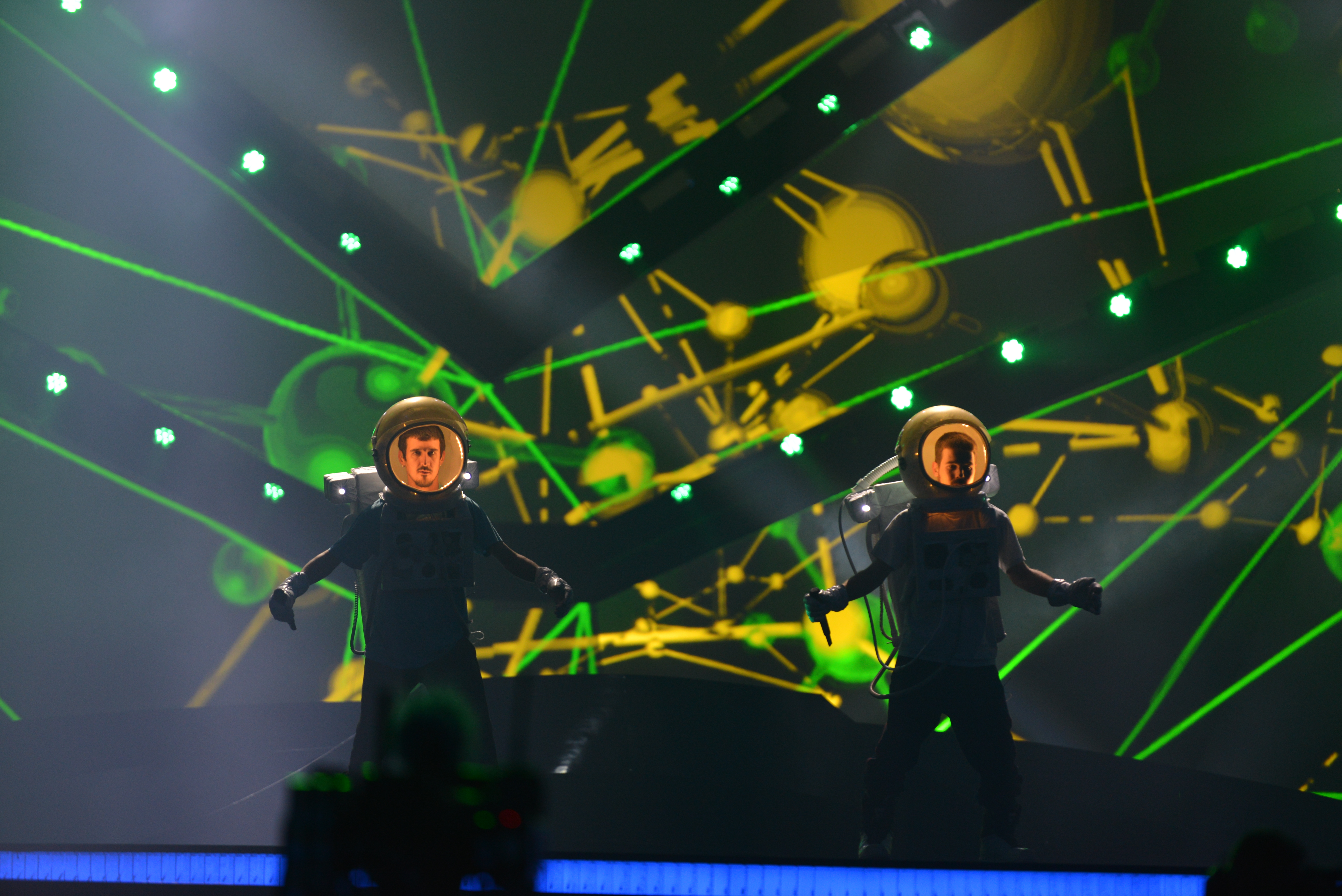 Who See representing Montenegro with the song "Igranka" (Игранка) during the first dress rehearsal of the first semi final of the Eurovision Song Contest 2013 in Malmö. (Help translate this text)